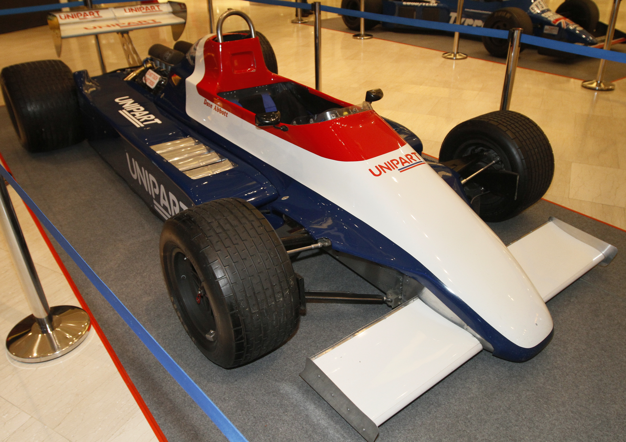 Pavilion Pit Stop 2010: Ensign N180